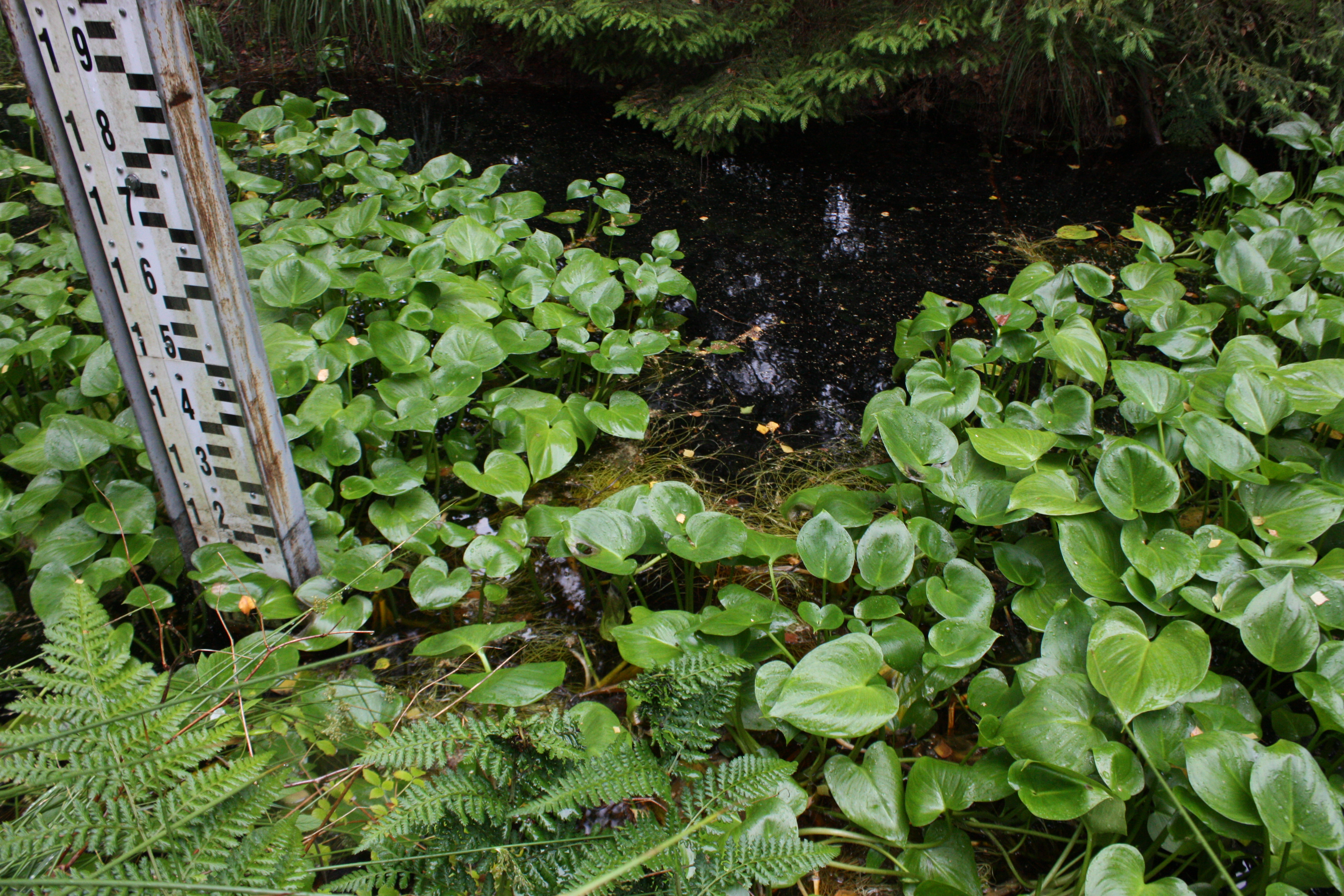 Bog Arum,Calla palustris, Poland, Gać (gmina Główczyce) near forest road to Zarnowska village, Słowiński Park Narodowy.